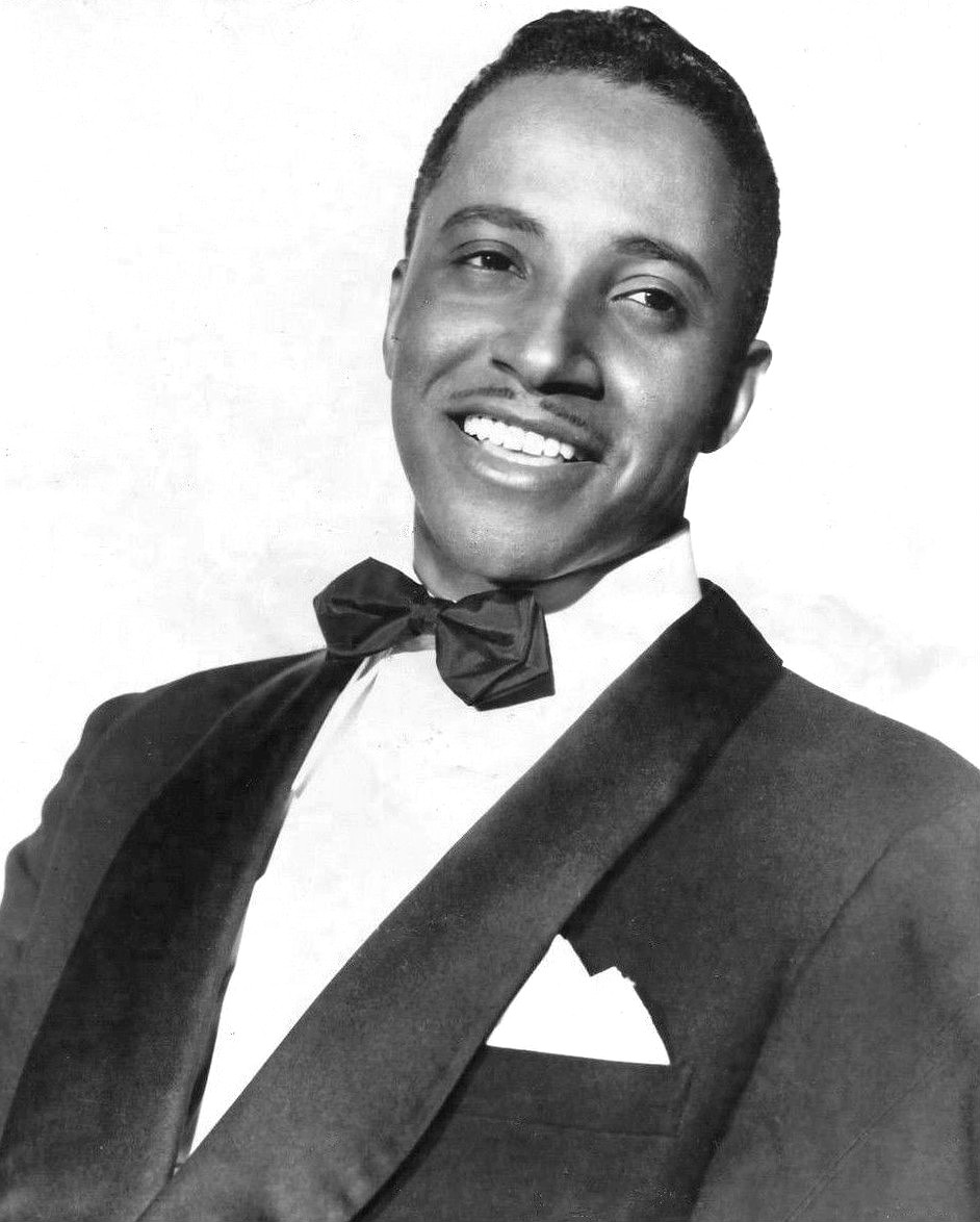 Photo of Tommy Edwards from an MGM Records ad in 1958. Will need no notice ad license at Commons. Note the photo is larger and of better quality than the Billboard ad. MGM Records did not mark their ad with any copyright notices. Copyright for Billboard would pertain to the editorial content only--not ads placed in the magazine. US Copyright Office page 3-magazines are collective works (PDF) "A notice for the collective work will not serve as the notice for advertisements inserted on behalf of persons other than the copyright owner of the collective work. These advertisements should each bear a separate notice in the name of the copyright owner of the advertisement."